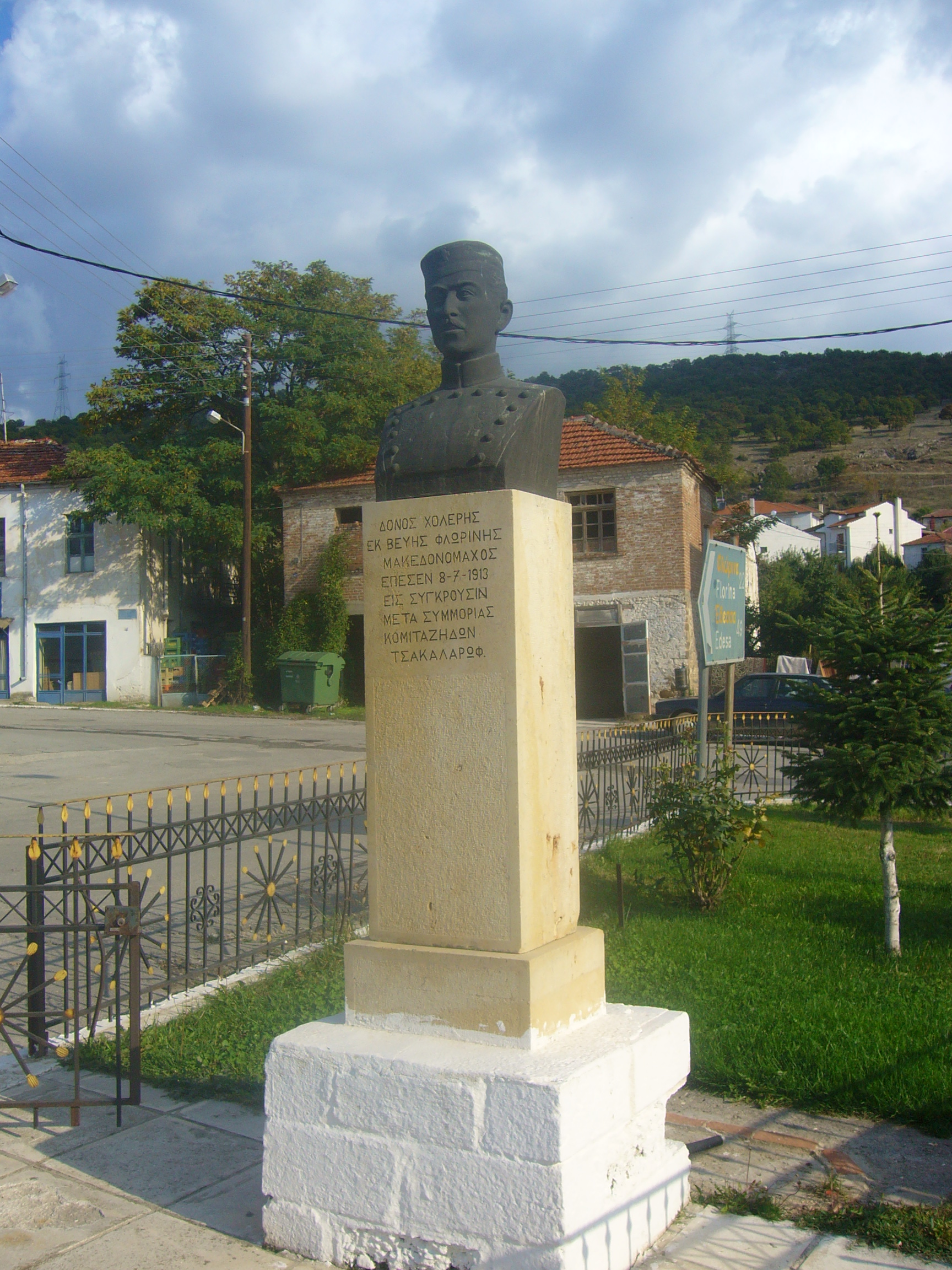 Statue of Donos Choleris in Vevi, Macedonia, Greece.